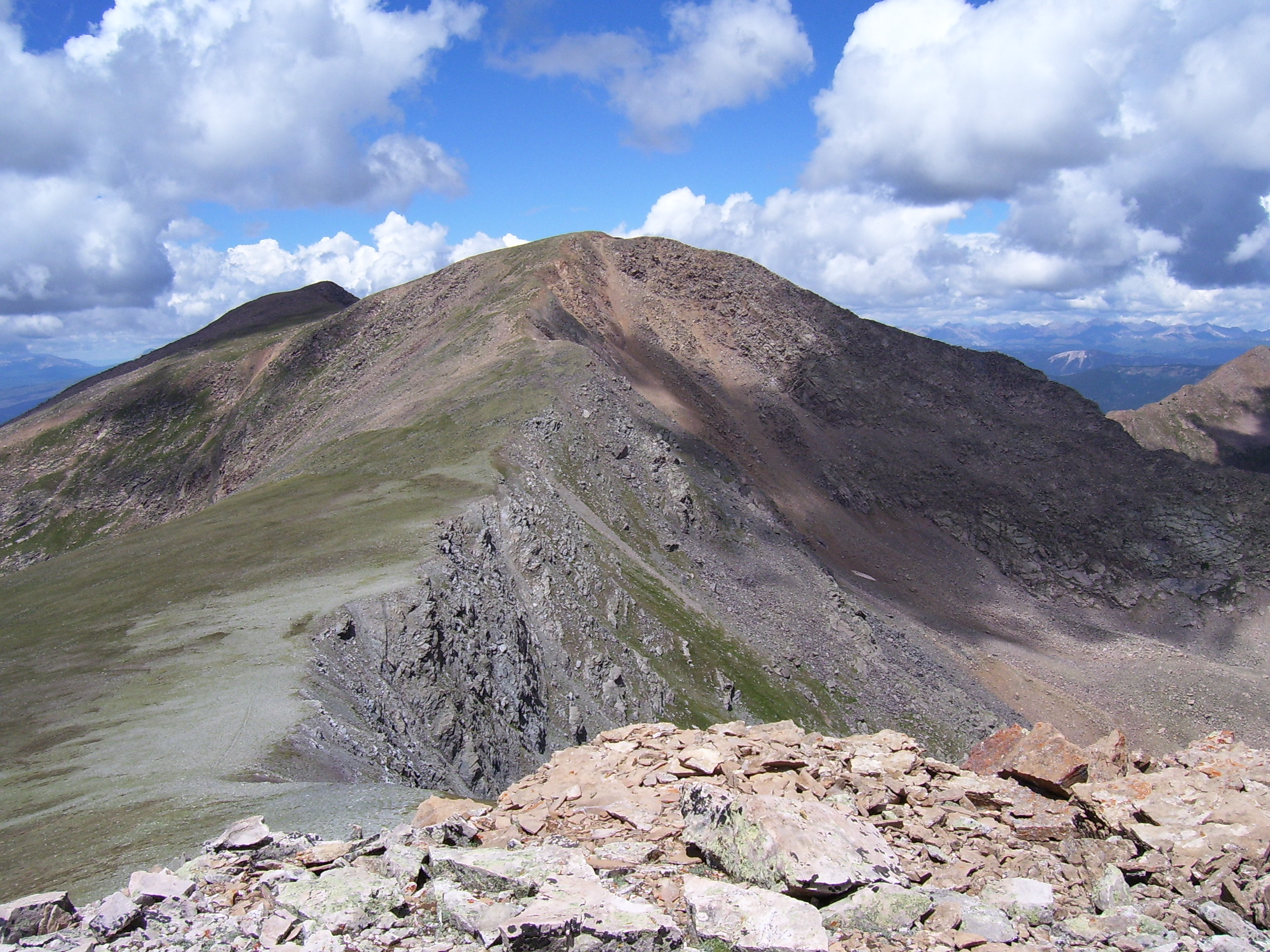 Henry Mountain, elevation 13,254 ft (4,040 m), viewed from the southeast atop Square Top Mountain. Henry Mountain is located in the Fossil Ridge Wilderness within the Gunnison National Forest.